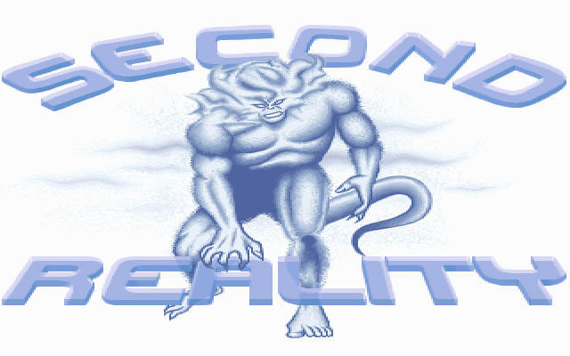 image from the demo second reality, brought to public domain in 1 August 2013 (